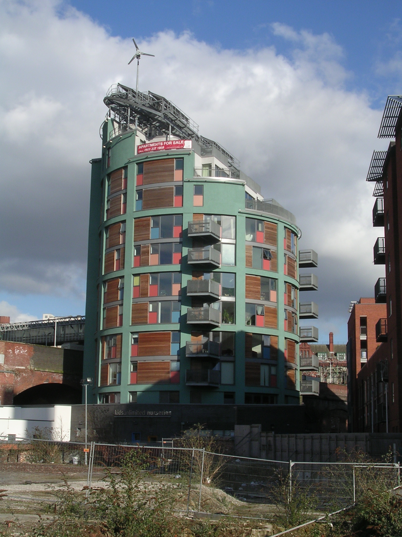 The Green Building at Macintosh Village sets new standards in ecological home design and is one of the most environmentally advanced residential buildings in the country. Designed by internationally renowned architects Terry Farrell & Partners, features include: A roof-mounted wind turbine that will generate electrical power for communal areas Solar energy for hot water generation will be harnessed using roof-mounted panels The building is designed to achieve a 60% reduction in CO2 emissions compared to that of an average apartment building Highly efficient communal gas boilers serve the underfloor heating system Facilities throughout the building will separate waste to maximise recycling Energy bills will be significantly reduced by a SAP rating of at least 100 and with the majority of appliances being A-rated There are considerable savings in water consumption, around 40% compared with the average home On the ground floor of the building there will be a doctors surgery and a nursery school Contained within a cylindrical drum, the central atrium allows plenty of natural light and ventilation into the apartments and a state of the art computerised system will optimise the control of active elements such as the atrium windows. In summary, The Green Building is a whole new concept in city living, uniquely eco-friendly and breathing new life into the heart of Manchester.